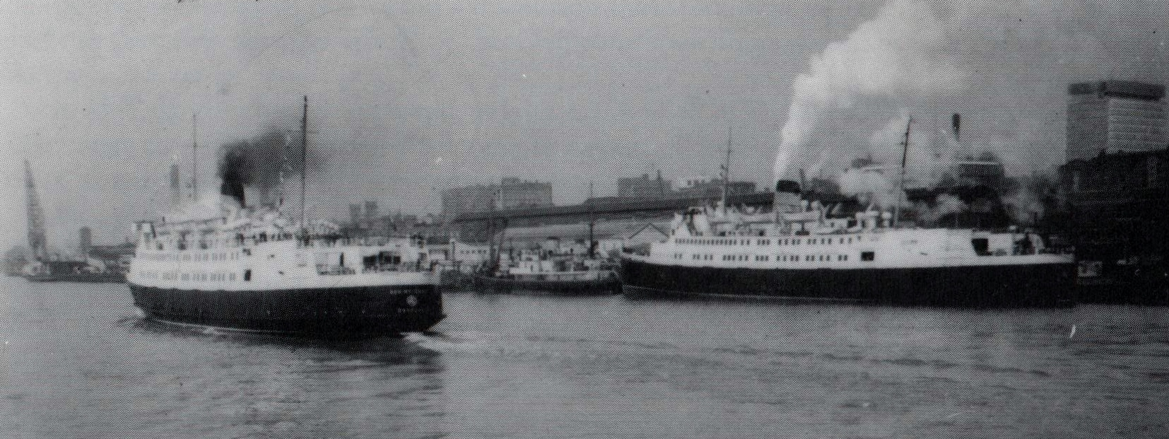 Ben-my-Chree receives a rousing 'salute' from her older sister Manx Maid, as she departs Liverpool on her Maiden Voyage to Douglas, May 12th, 1966.